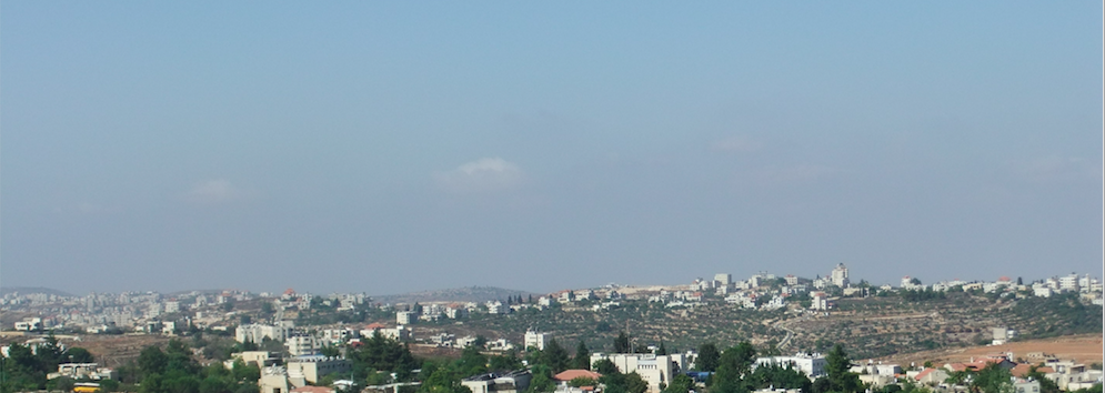 Surda